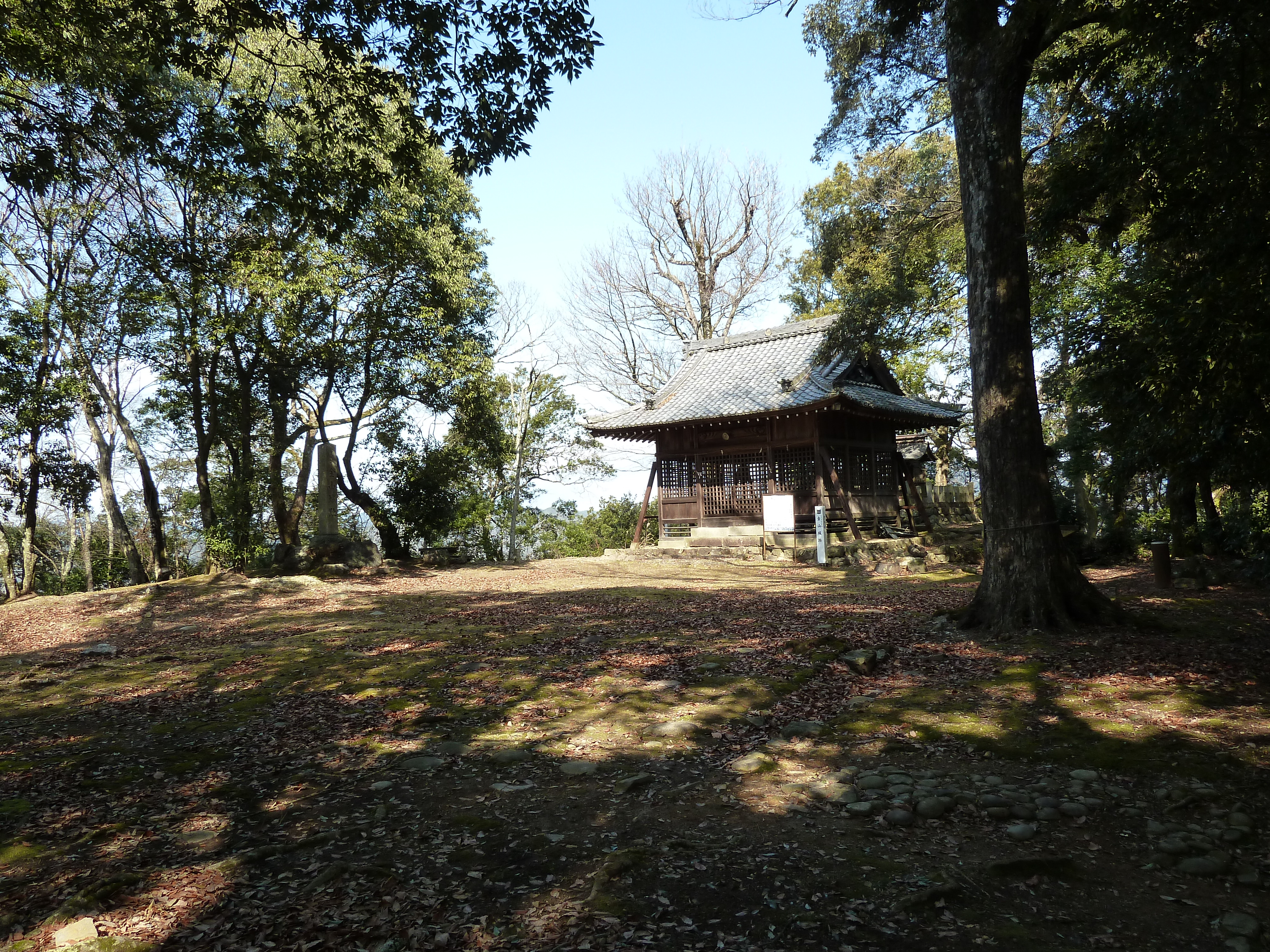 兼山城の本丸